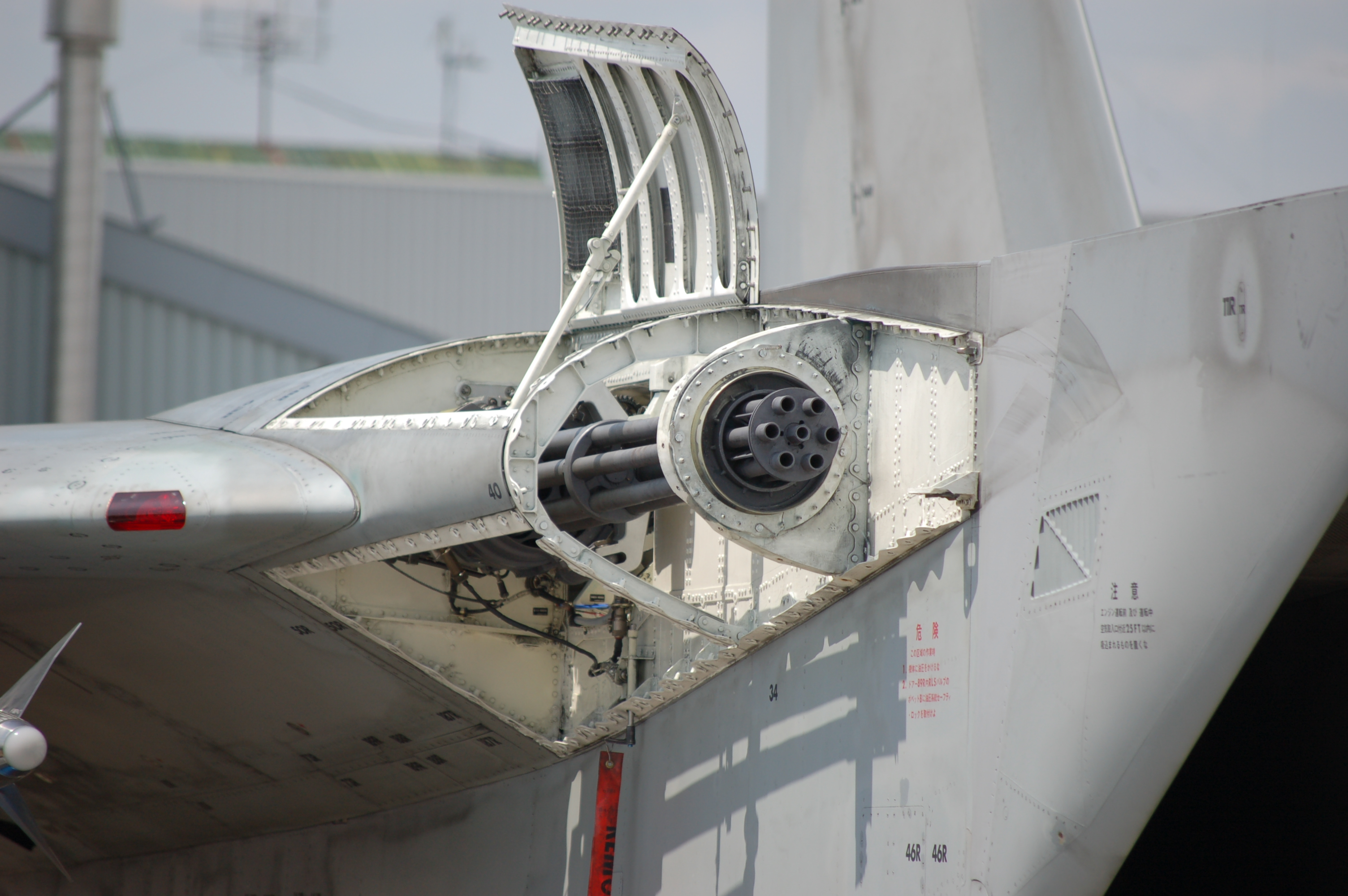 M61 Vulcan mounting on JSDF F15 at Chitose Airbase Show in 2009.